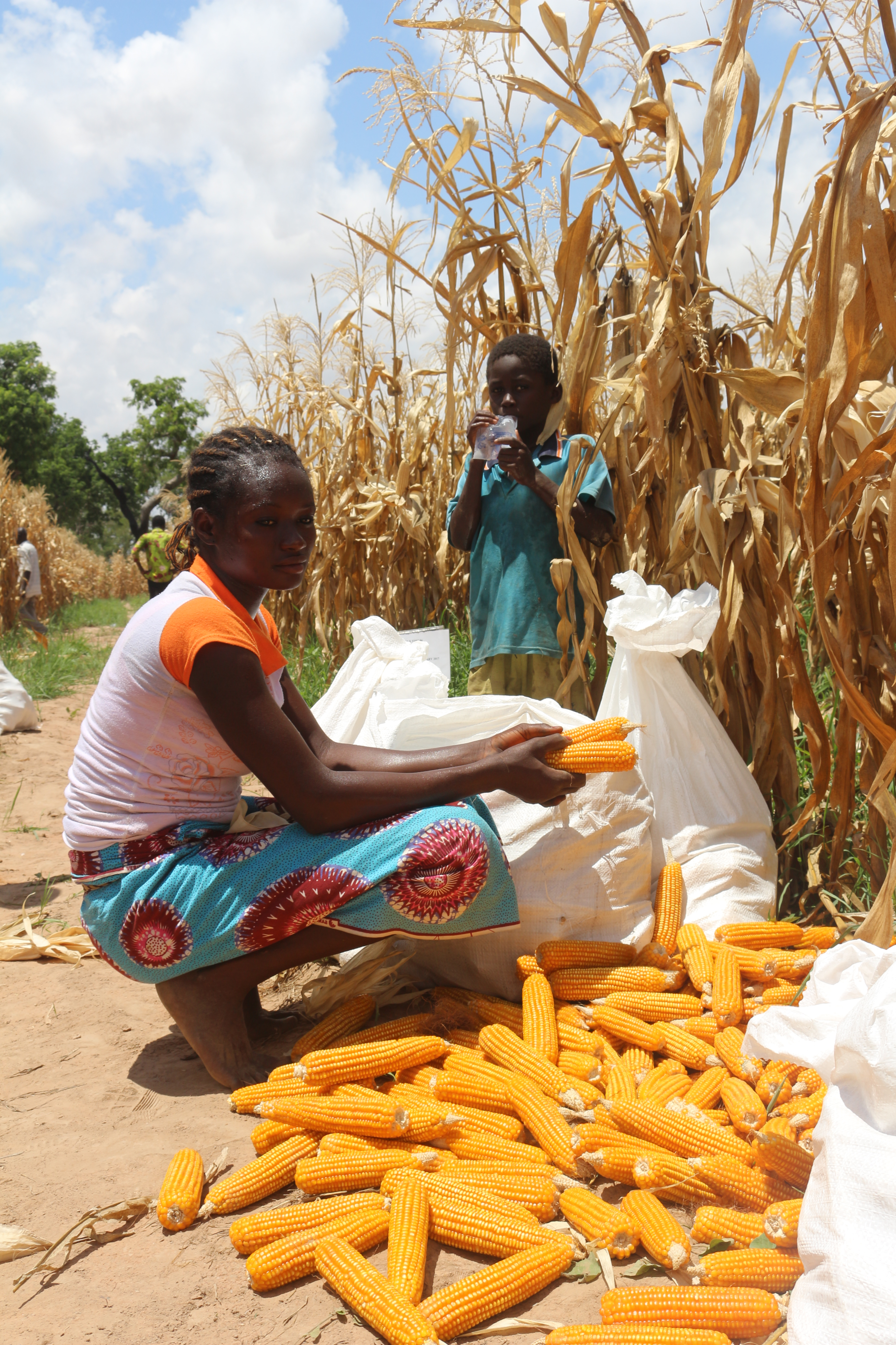 female farmer showing off her harvest This is an image of "African people at work" from Ghana